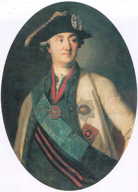 Portrait of Alexei Grigoryevich Orlov (1737-1809)